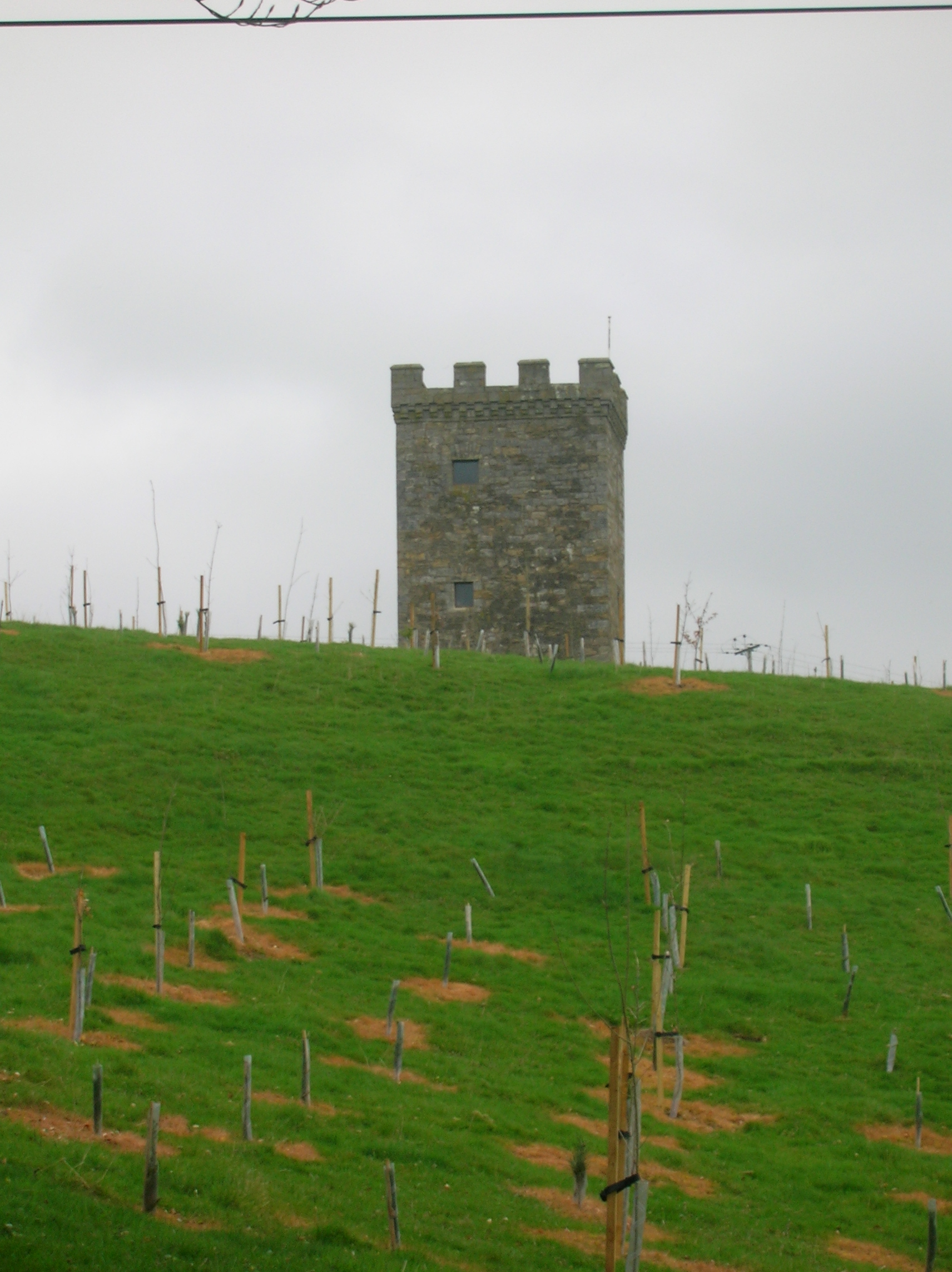 The recently restored folly tower near Caldwell House and Uplawmoor in East Renfrewshire, Scotland. 2007. Rosser 15:04, 21 April 2007 (UTC)